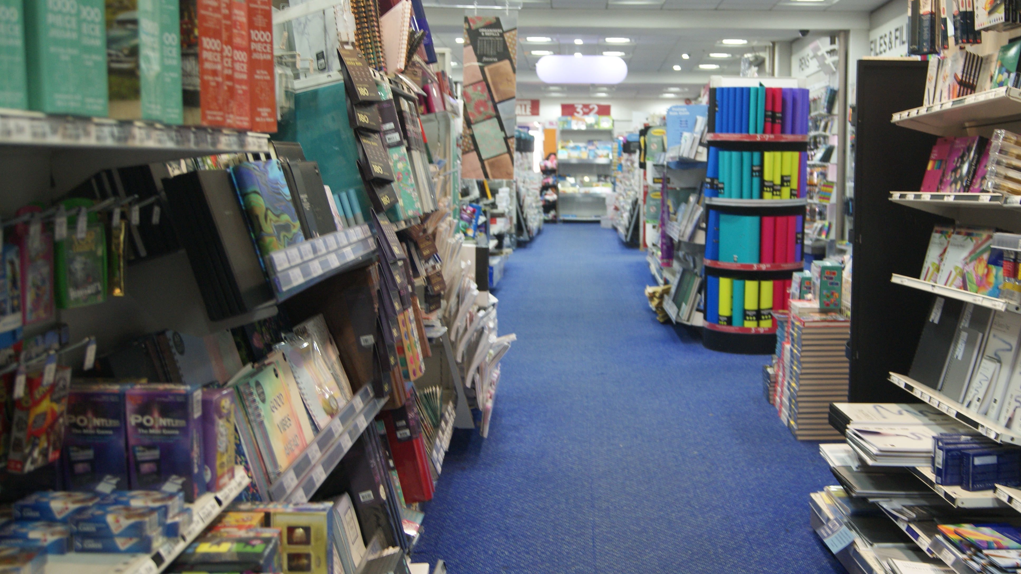 Interior of WH Smith, Market Place, Pontefract, West Yorkshire. The post office is to shortly move into the back of WH Smiths as is happening in many towns.